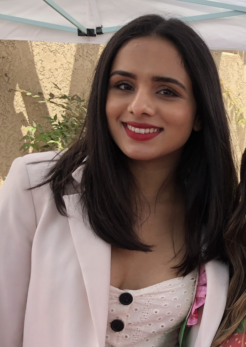 Aparna Brielle at the 2018 Garden Grove Strawberry Festival celebrity autograph table.